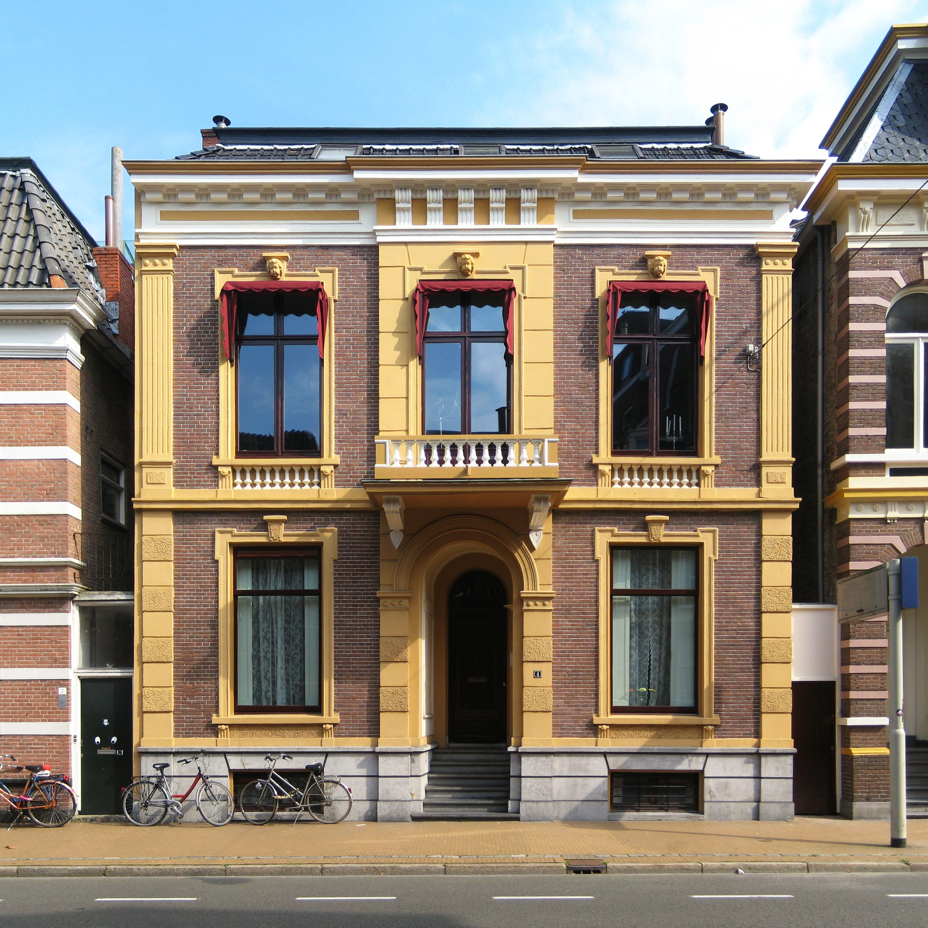 House (1882) in the Dutch city of Groningen.